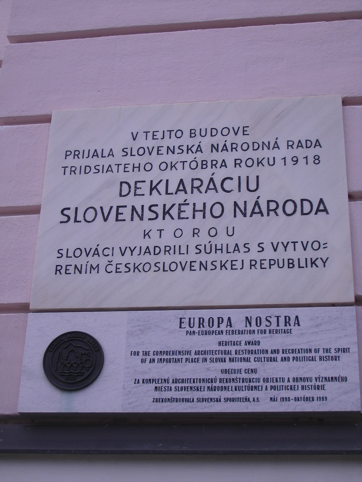 Martin